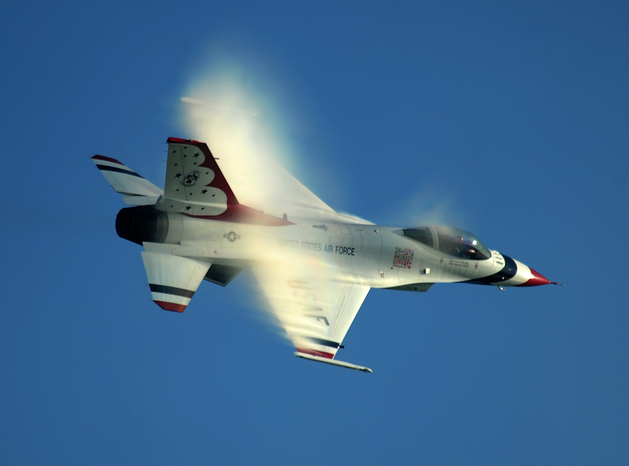 U.S. Air Force Maj. J.R. Williams, Thunderbird 6, Opposing Solo, performs a Sneak Pass during the Jesolo Air Extreme Air Show, Jesolo, Italy June 12, 2011. The Thunderbirds will perform in nine countries during their six-week European tour, fostering international goodwill and representing America's airmen around the globe.